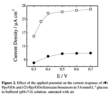 sensor